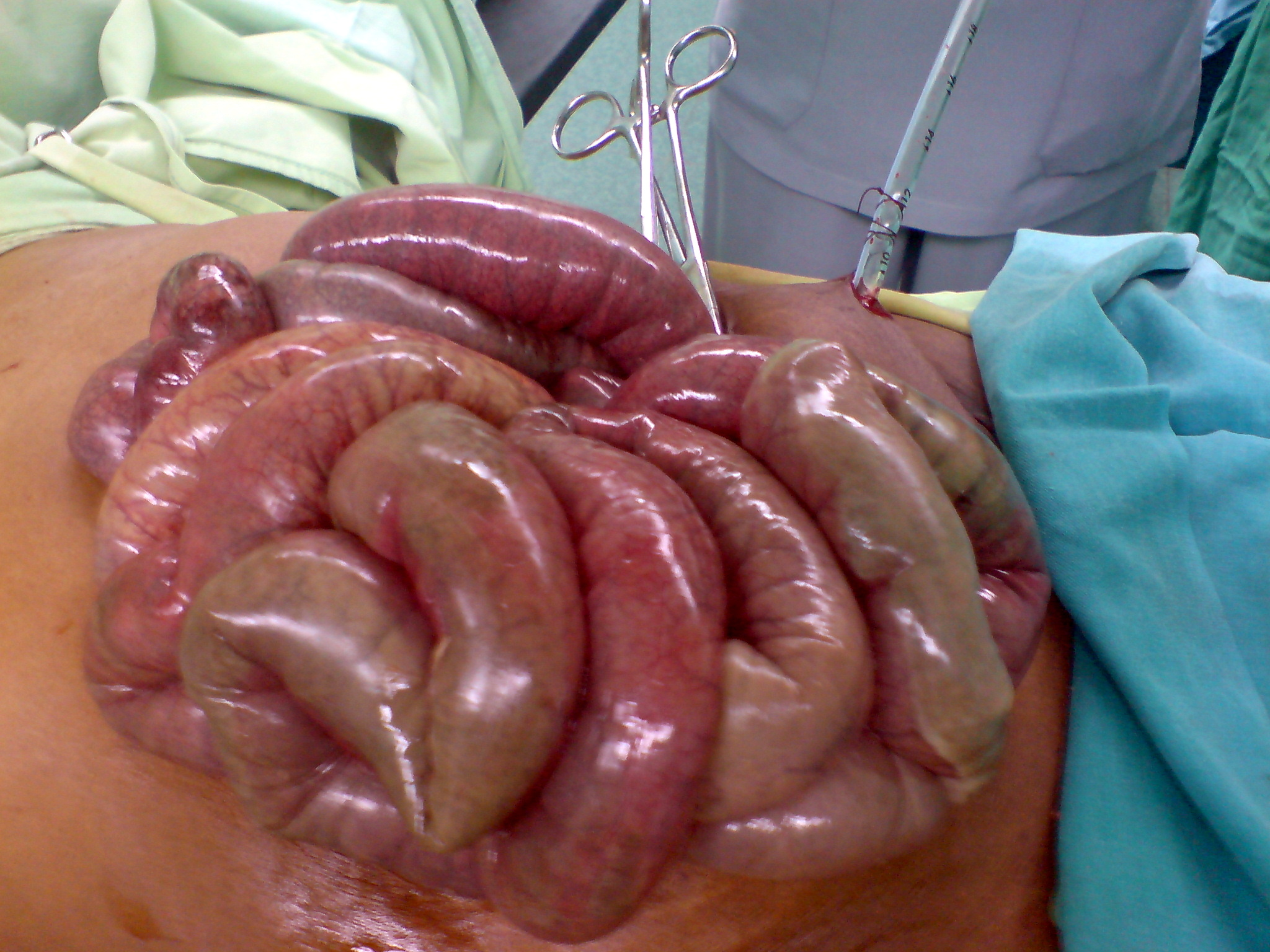 ischemic bowel 50 years old female patient king saud medical complex riyadh saudi arabia